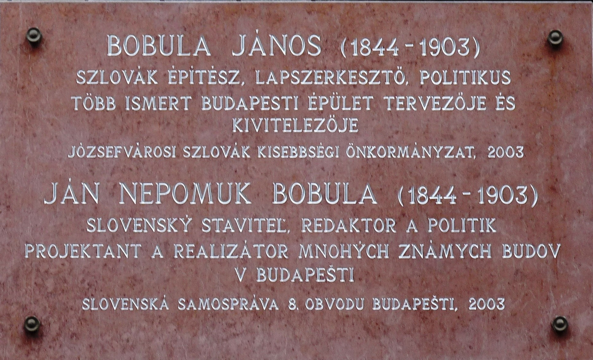 Commemorative plaque to Mr. János Bobula (Slovak: Ján Nepomuk Bobula) (1844-1903) Slovak nationality architect, editor and politician. It is affixed on the wall of a school designed and built by him. The plaque was unveiled by the municipality of the Slovak minority in Józsefváros (Budapest) in 2003. (Budapest, District VIII, Trefort Street Nr 8).